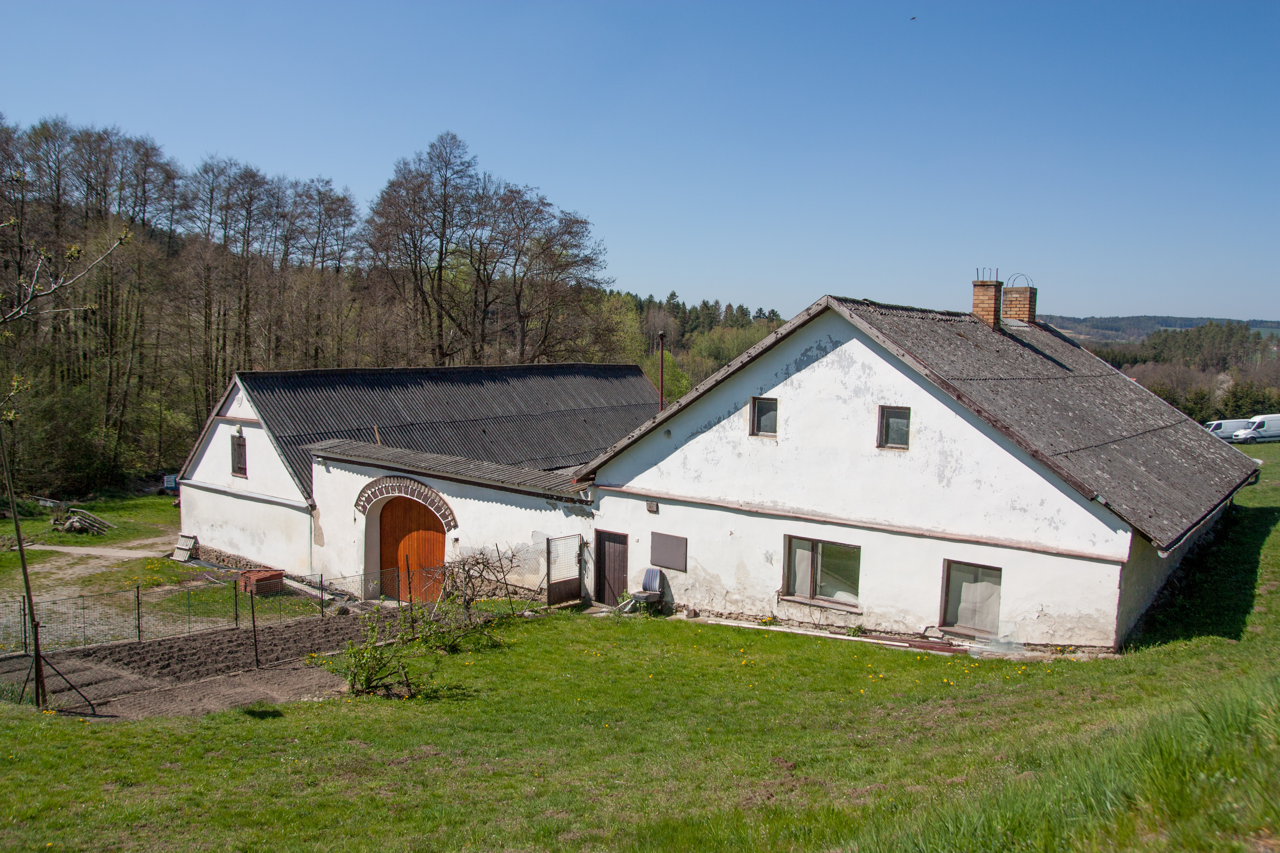 Homestead in municipality Úlehle, Tábor District, South Bohemian Region, Czechia